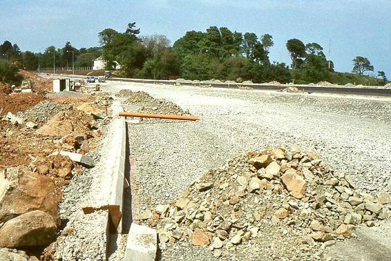 Building the M5, near Rushpark, Whiteabbey. Announced in 1965 as a motorway of seven miles from Greencastle to Carrickfergus, the M5 ended up as a one mile stretch from Greencastle to Rushpark 384108 at Whiteabbey. This view shows the road under construction, on the approach to the roundabout, near Hazelbank, just four months before it opened. Continue to 1638178.